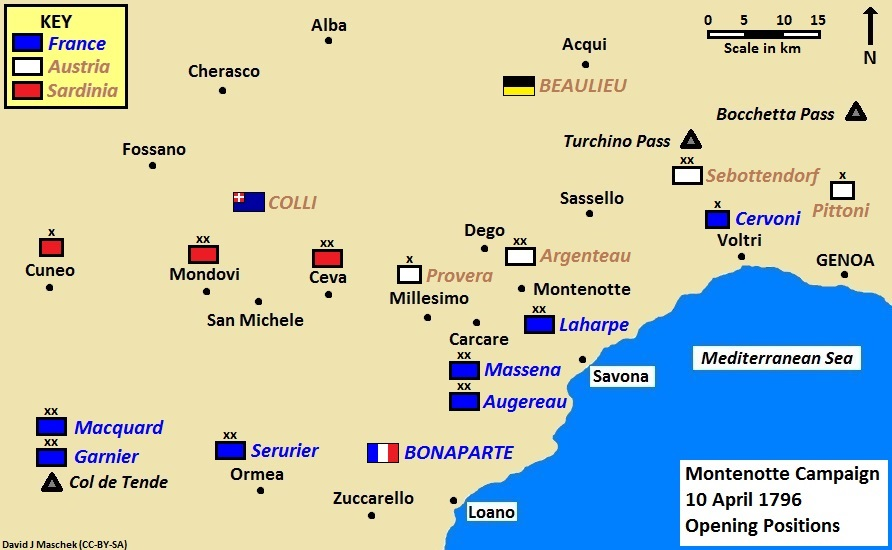 Montenotte Campaign map showing the approximate unit positions on 10 April 1796.